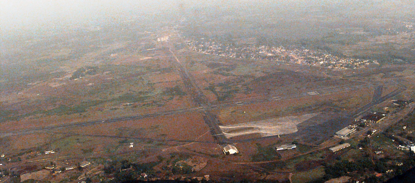 Roberts International Airport in Liberia.